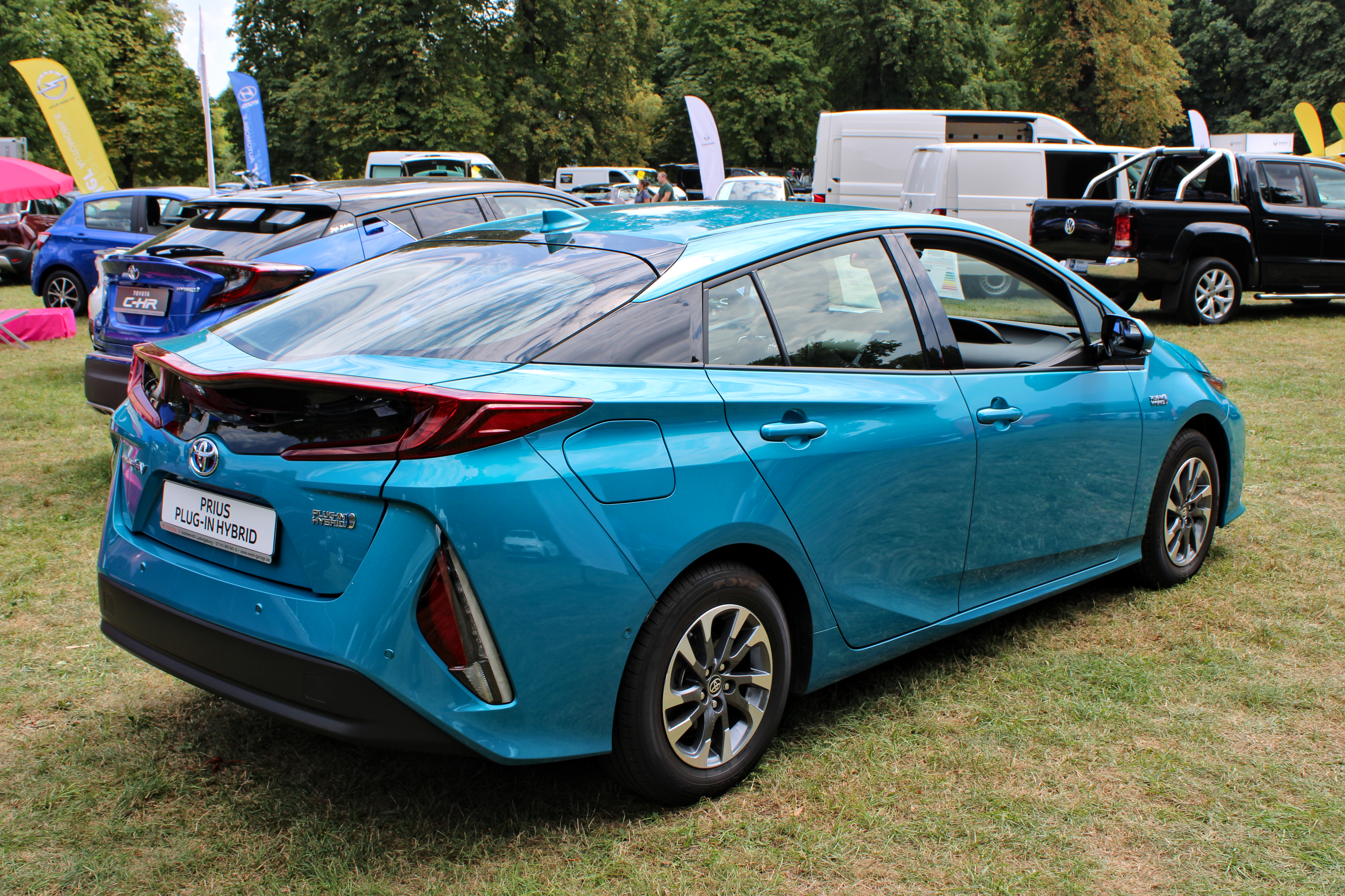 Toyota Prius PHEV at schloss Monrepos